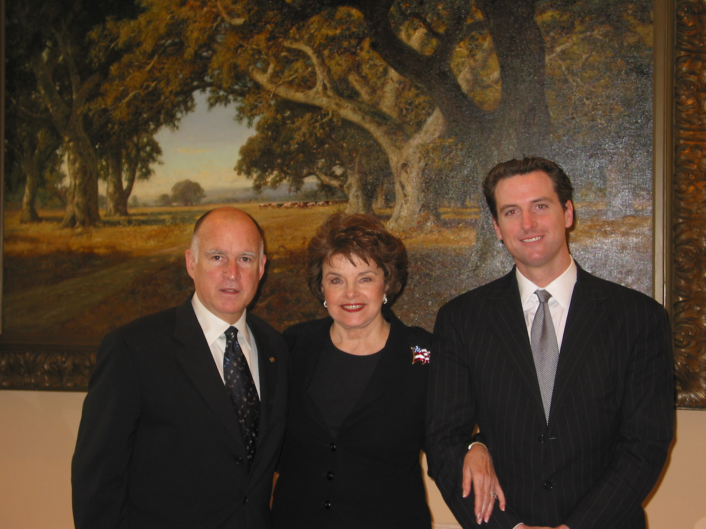 Senator Dianne Feinstein (middle) meets with then-Oakland Mayor Jerry Brown (left) and then-San Francisco Mayor Gavin Newsom (right) in her Washington Office.